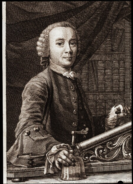 Copper etching by J. Haas from 1758 of the young C.G. Kratzenstein.